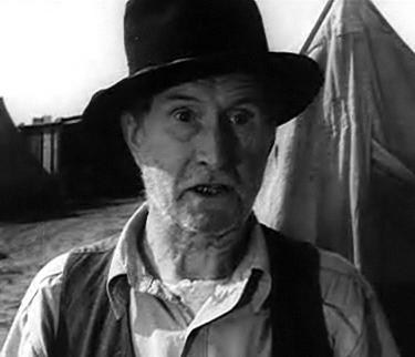 Russell Simpson in The Grapes of Wrath (1940) - trailer (cropped screenshot)